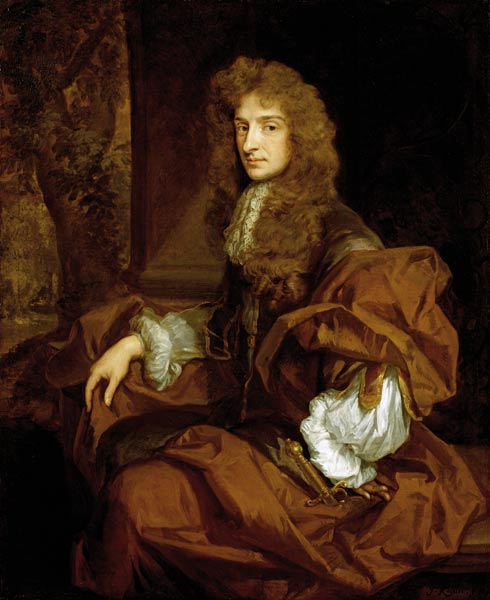 Portrait of Sir Charles Sedley, by Sir Godfrey Knellor (date unknown, but author died in 1723).